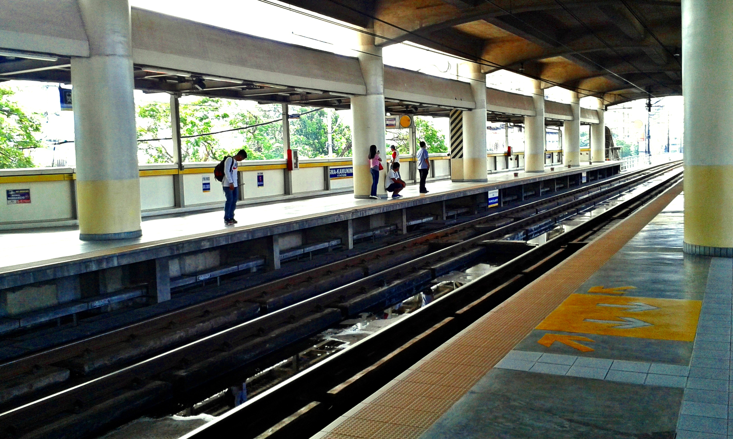 MRT-3 Kamuning Station Platform Area.